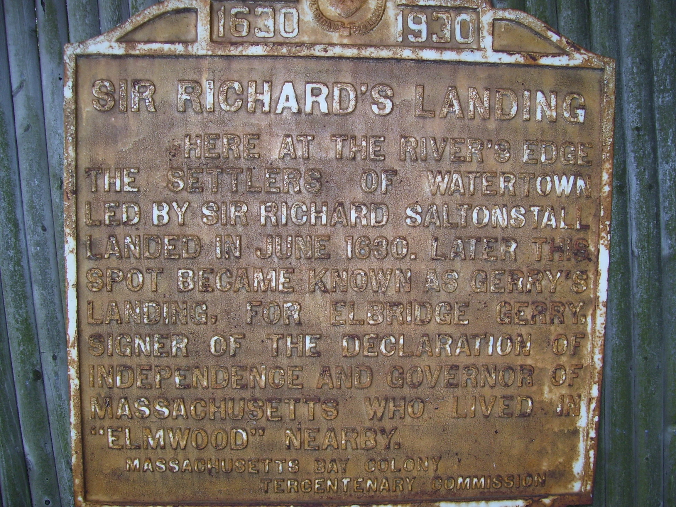 My 2008 photo of the Gerry's Landing plaque, Cambridge, Massachusetts, USA where Sir Richard Saltonstall landed and where Elbridge Gerry lived